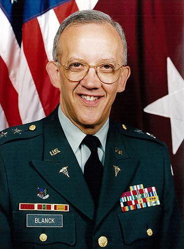 Lieutenant General Ronald Ray Blanck, D.O. (born October 8, 1941) was the 39th Surgeon General of the United States Army, from 1996 to 2000.